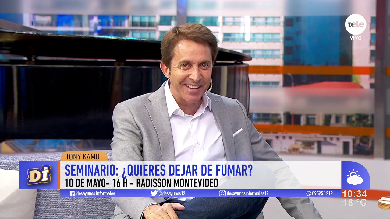 Tony Kamo in 2019.